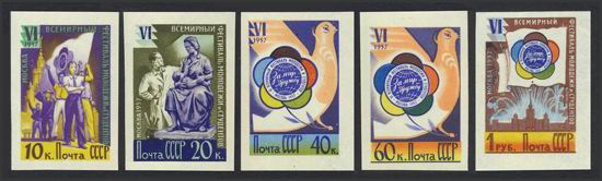 Stamp of USSR